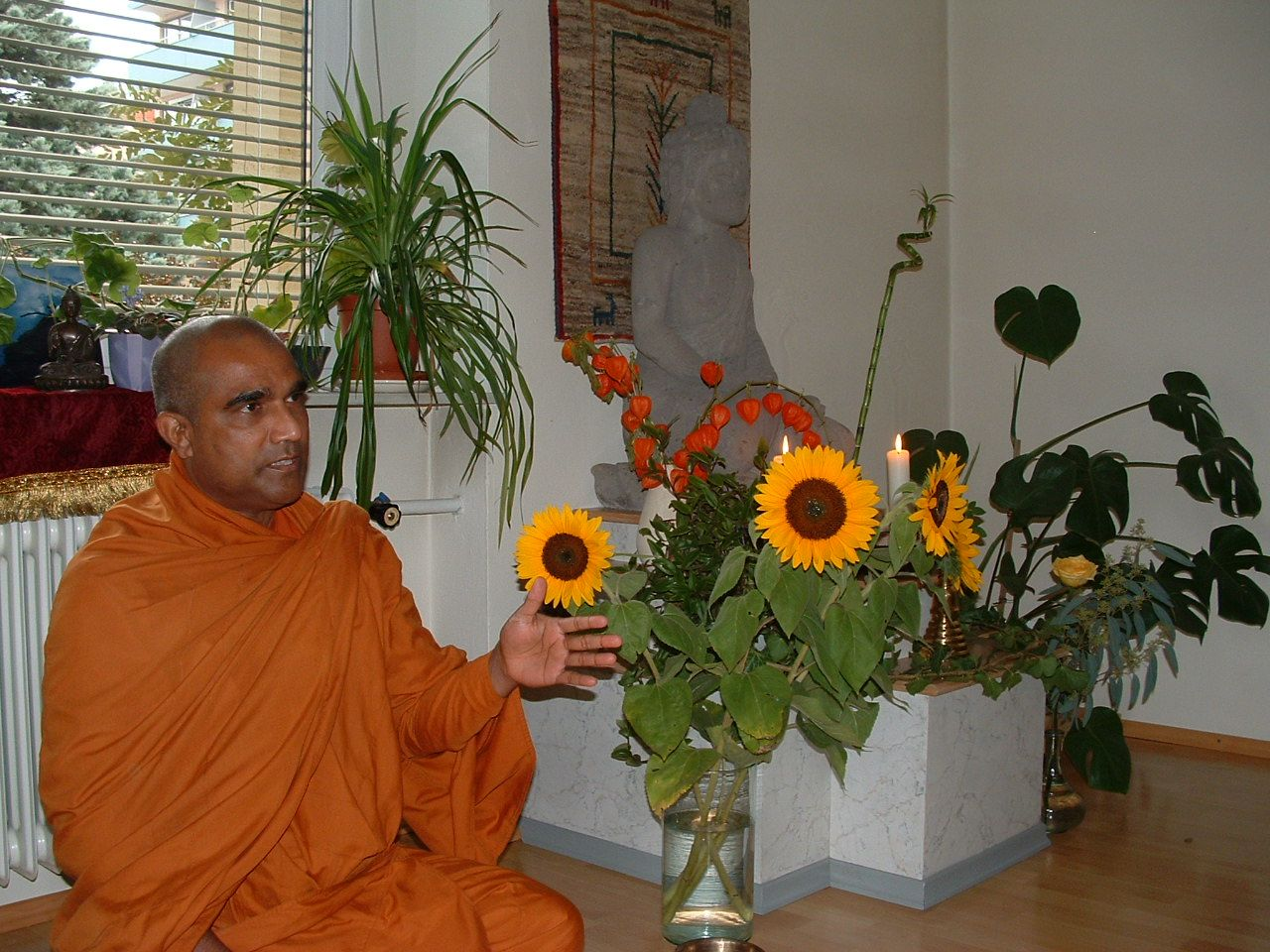 Seelawansa Mahathero Photograph by Gakuro